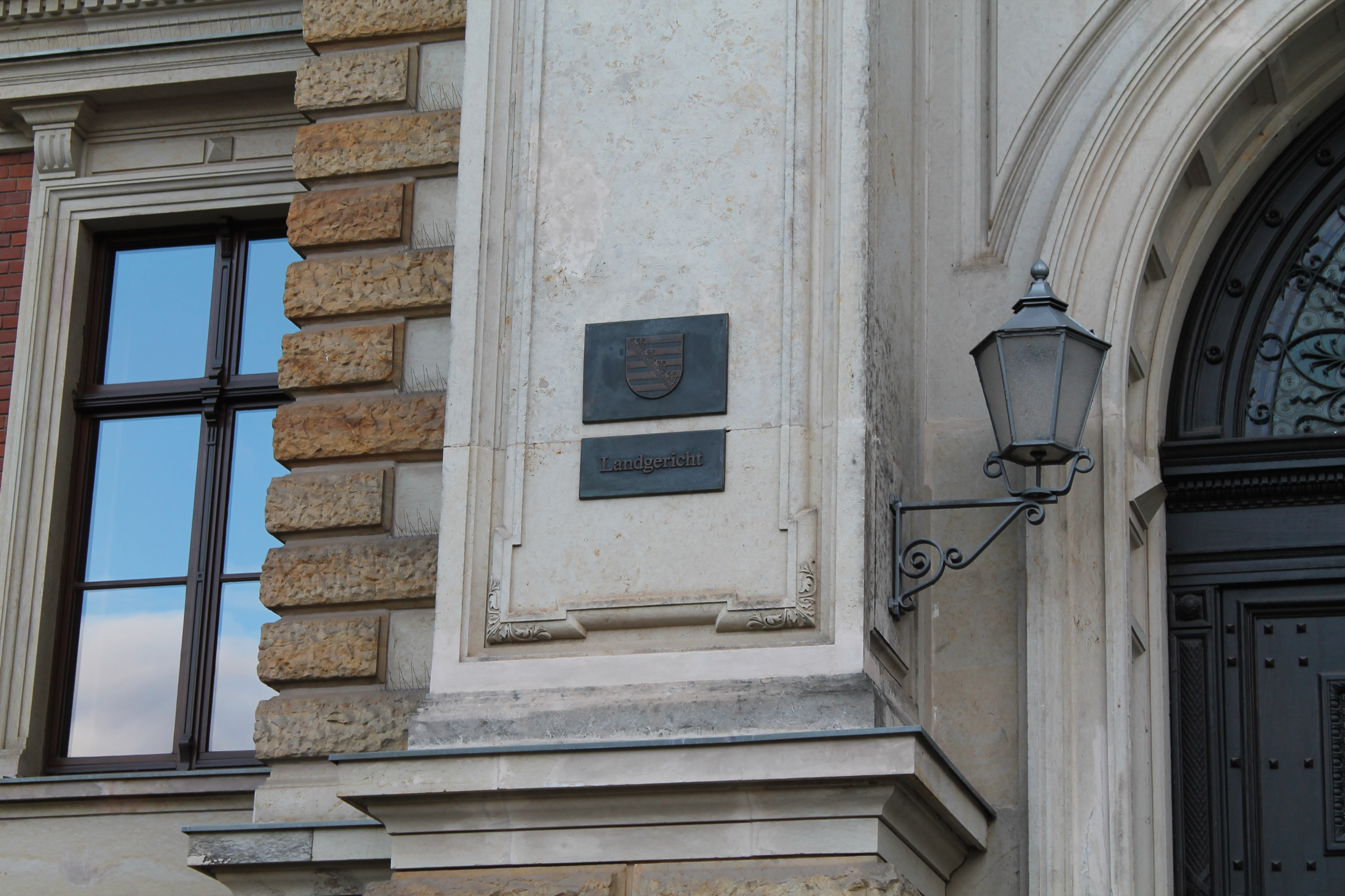 Courthouse in Zwickau, Saxony, Germany.